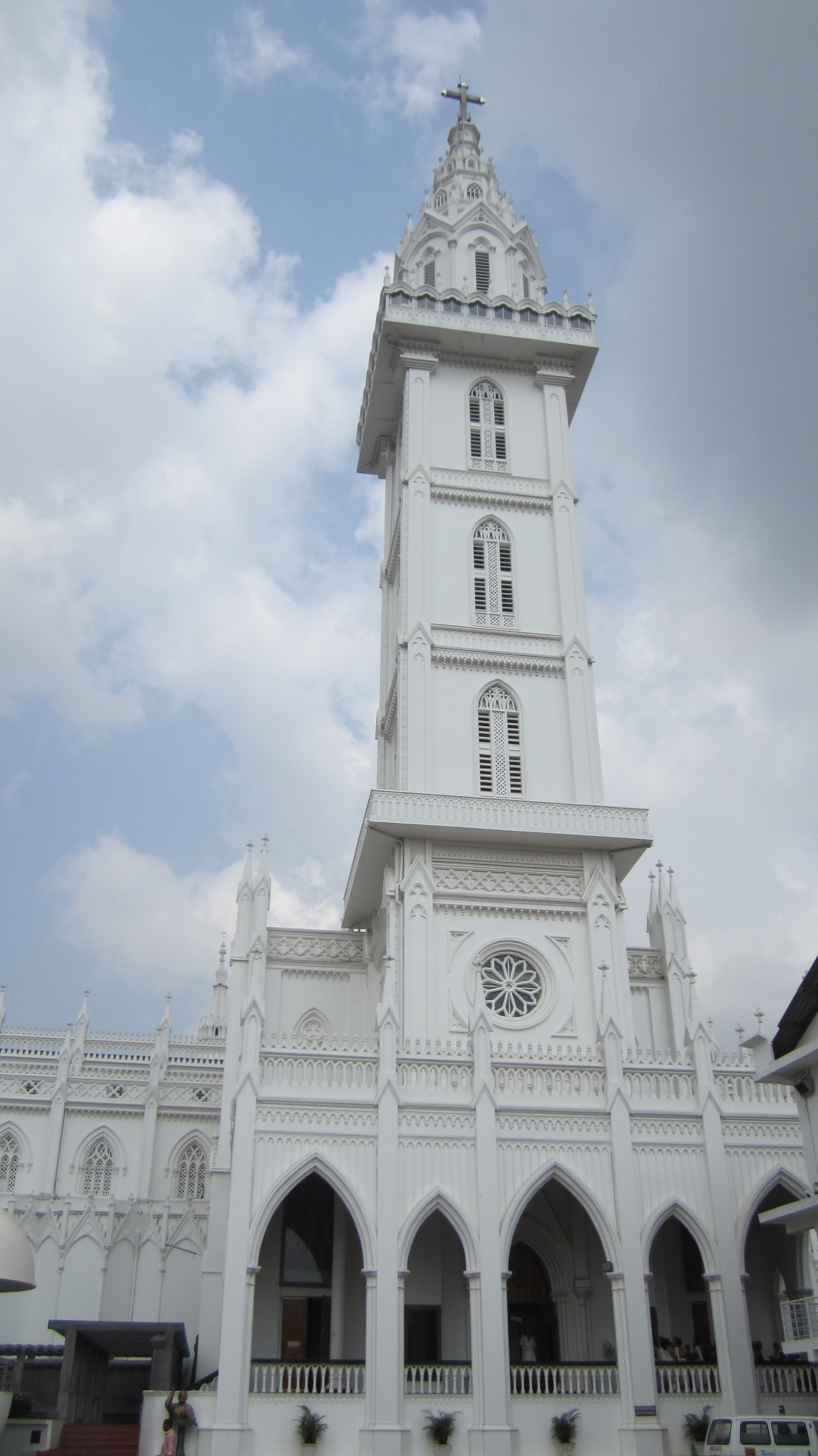 Bible Tower, Thrissur